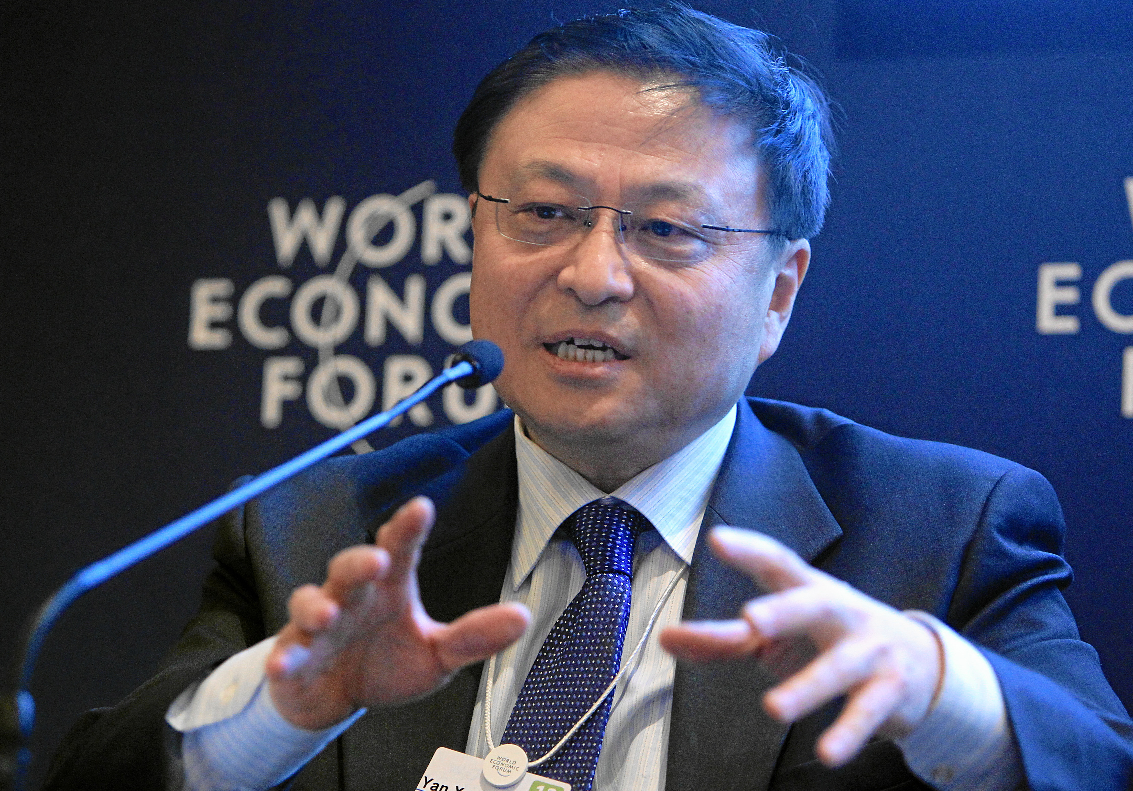 DAVOS/SWITZERLAND, 23JAN13 - Yan Xuetong, Dean, Institute of International Relations, Tsinghua University, People's Republic of China; Global Agenda Council on the United States speaks during the interactive session 'The East Asia Context' at the Annual Meeting 2013 of the World Economic Forum in Davos, Switzerland, January 23, 2013.. . Copyright by World Economic Forum. . Sebastian Derungs